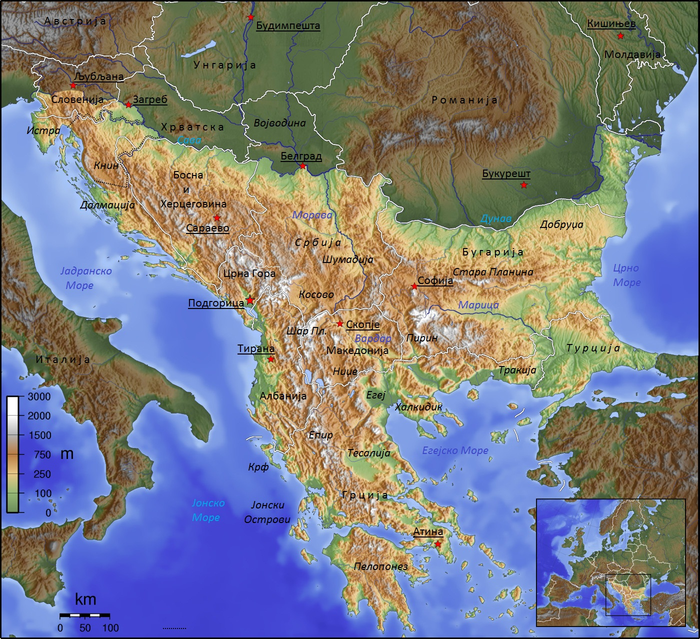 Topographic map of the Balkans in Macedonian.